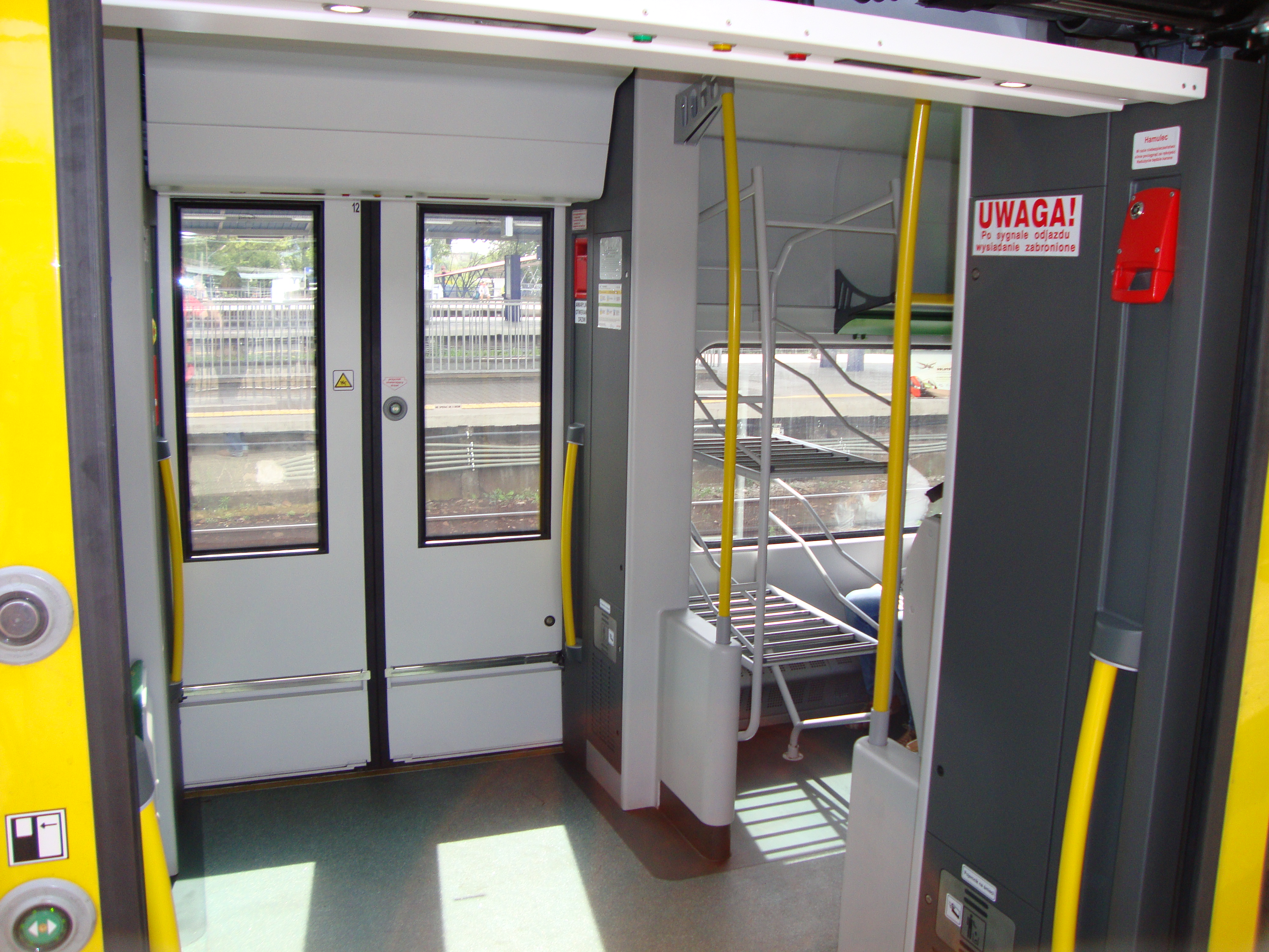 półka bagażowa mazowieckiego Elfa (22WEb)